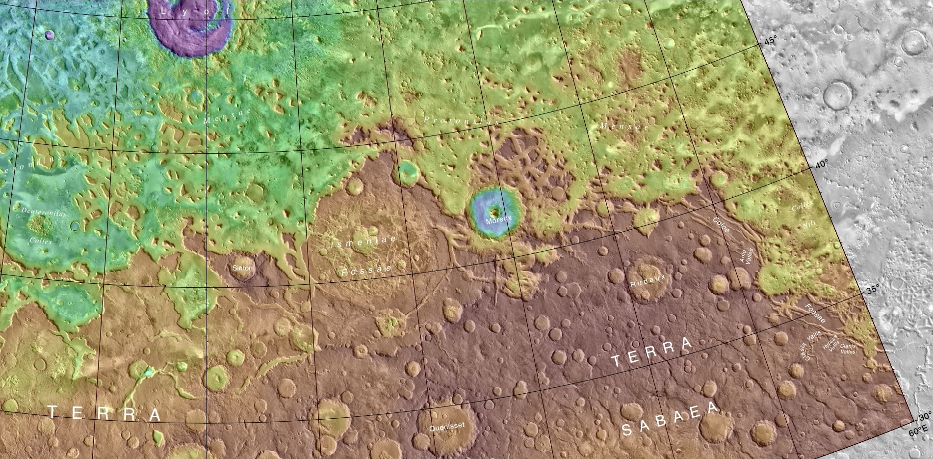 Mola map showing Rudaux Crater and other nearby craters.